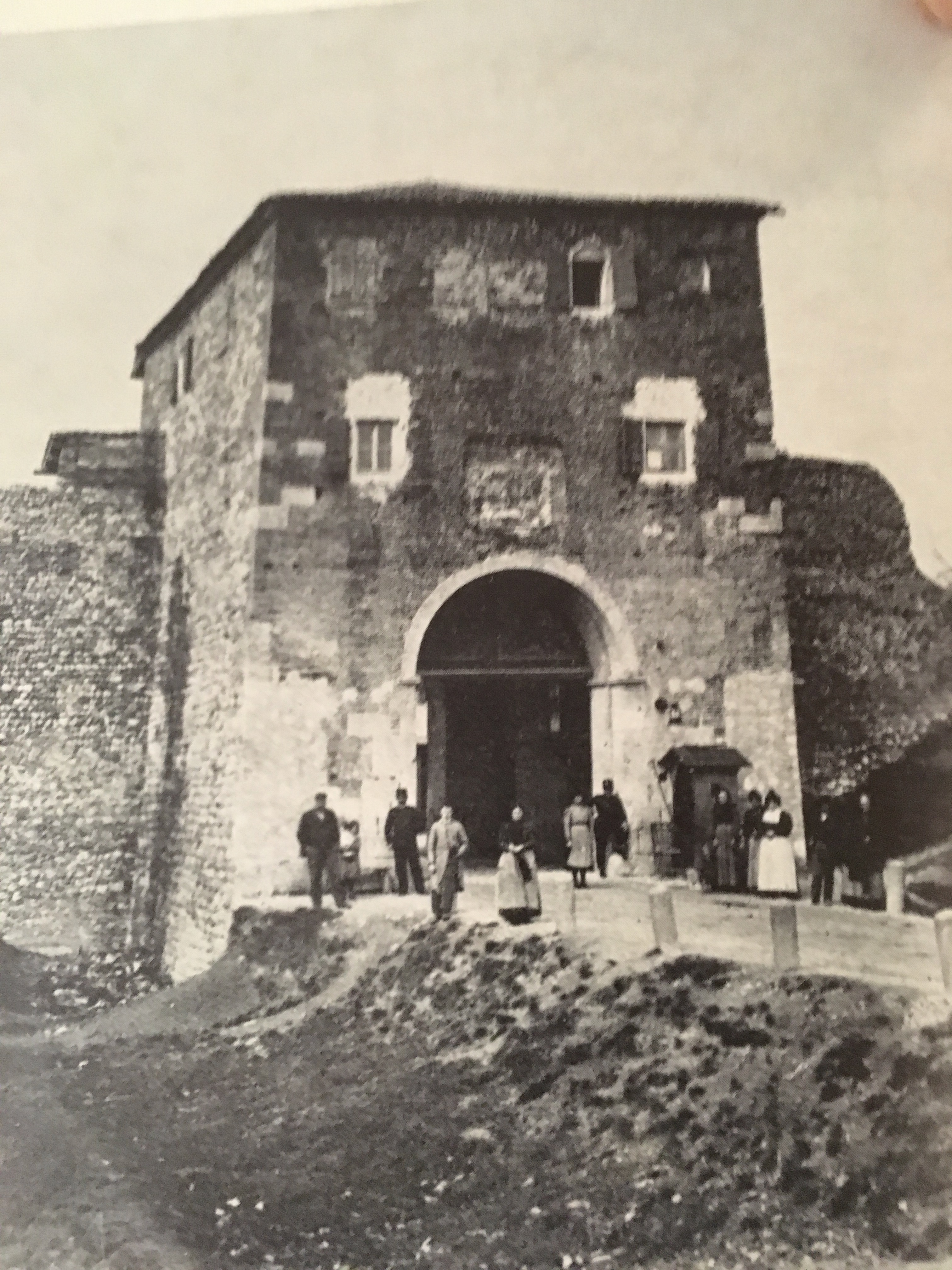 Porta Ronchi